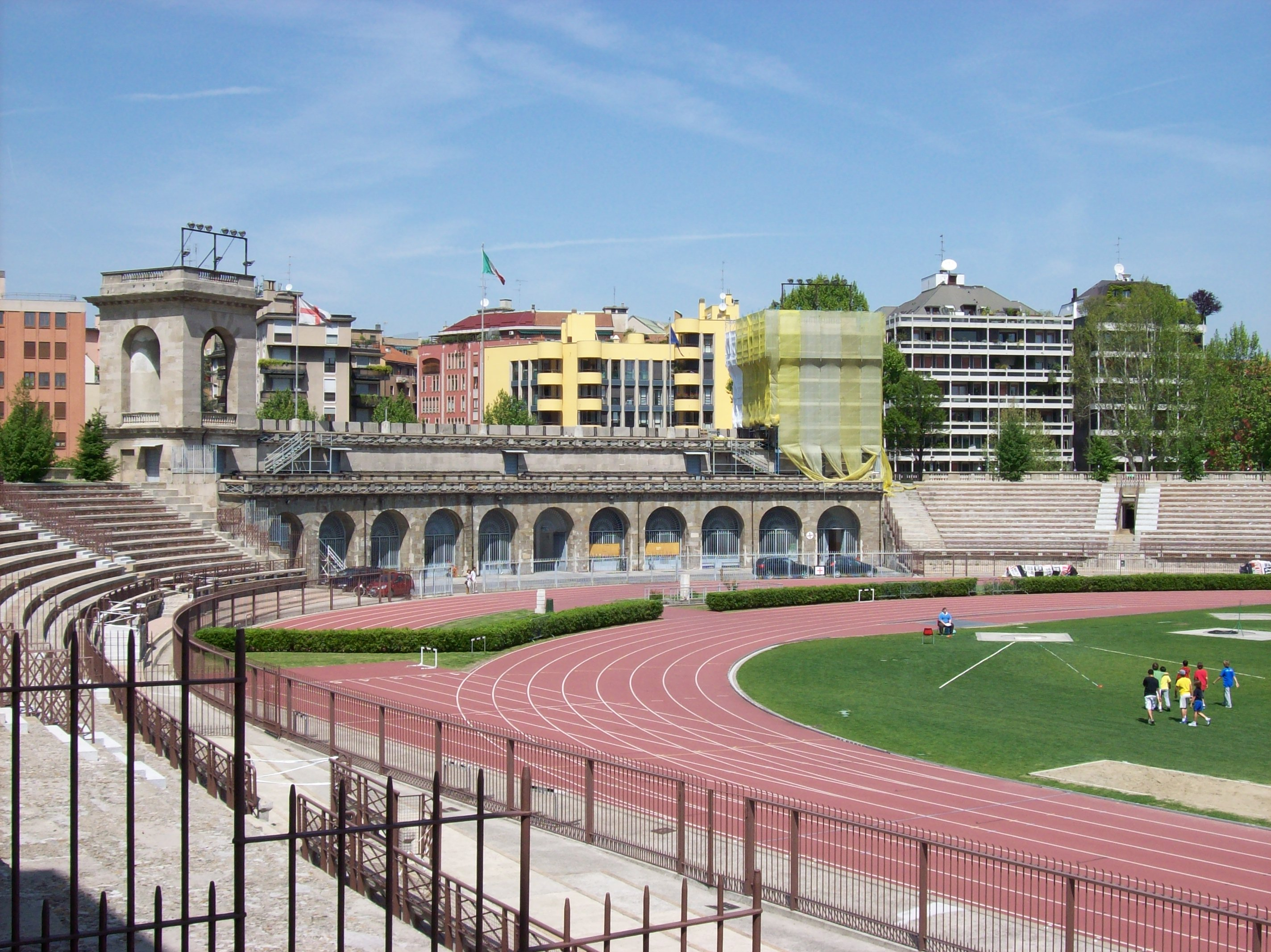 Arena Civica "Gianni Brera" in Milan: the northern stand and gate